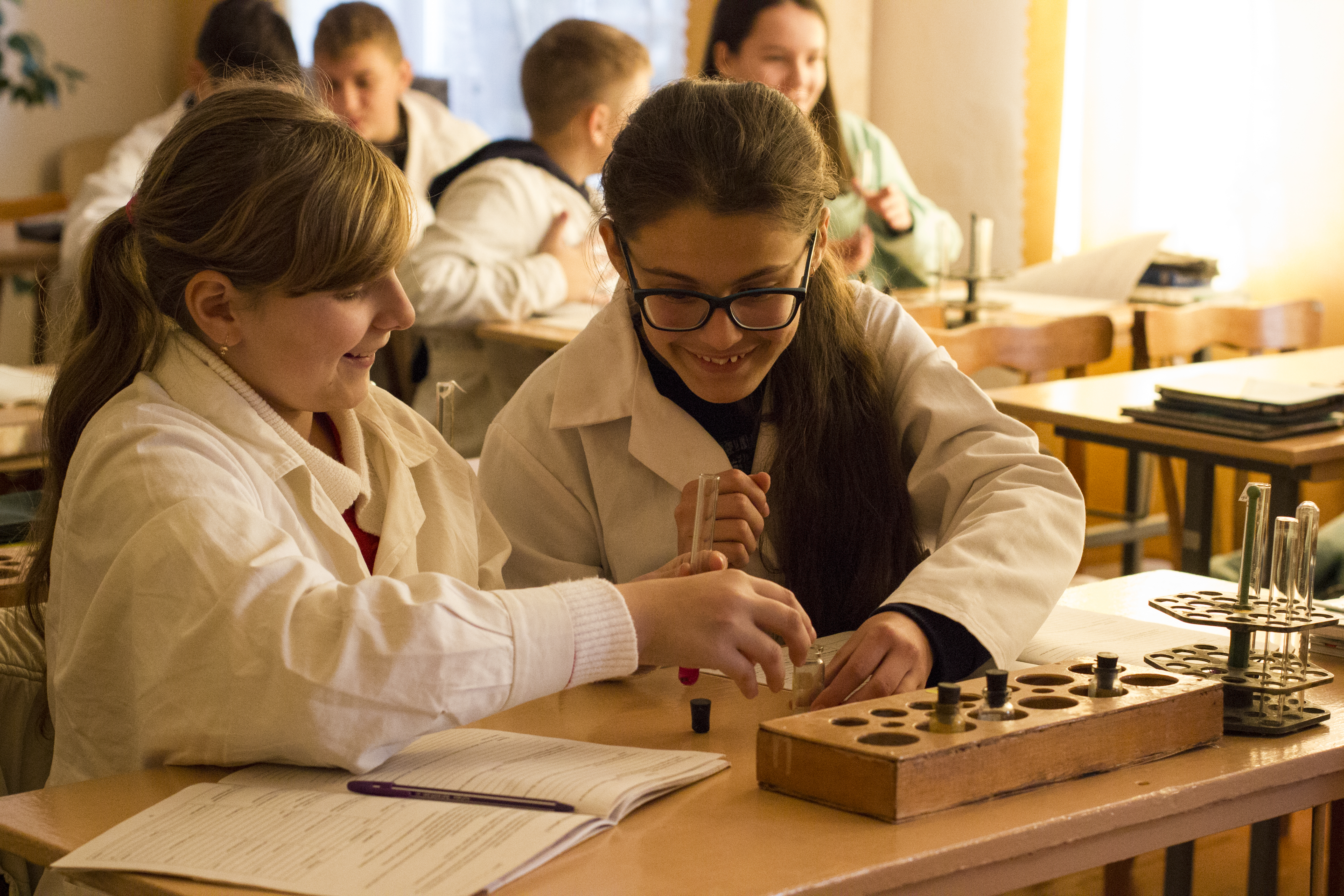 Physical and chemical phenomena. Chemical reactions and phenomena.